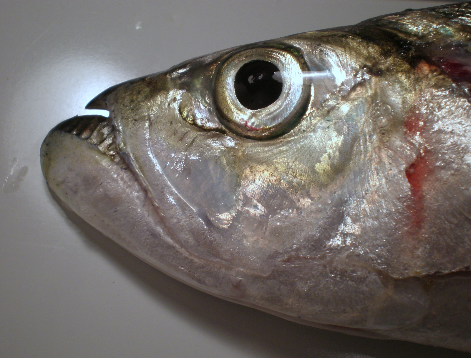 Chirocentrus dorab, from fishmarket, Nouméa, New Caledonia.